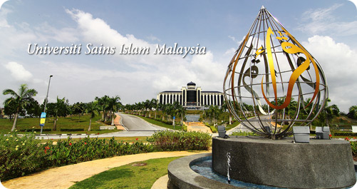 Chancellery building